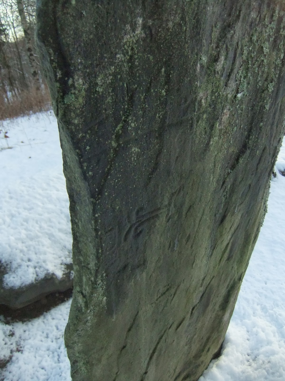 The Nokia Stone, a late medieval grave slab at Nokia chapel in Nokia, Finland.